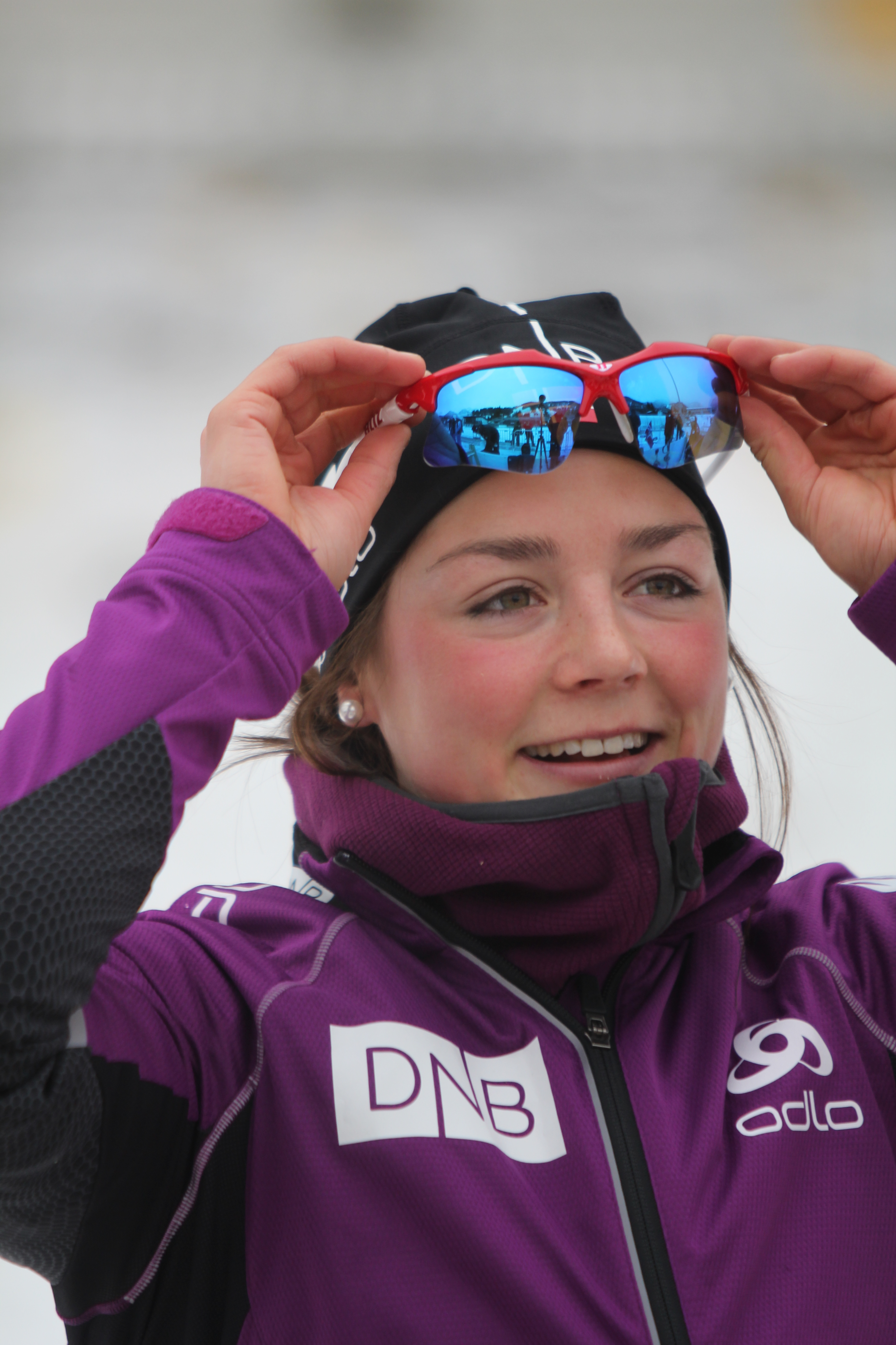 Bente Landheim at Biathlon Hochfilzen 2011